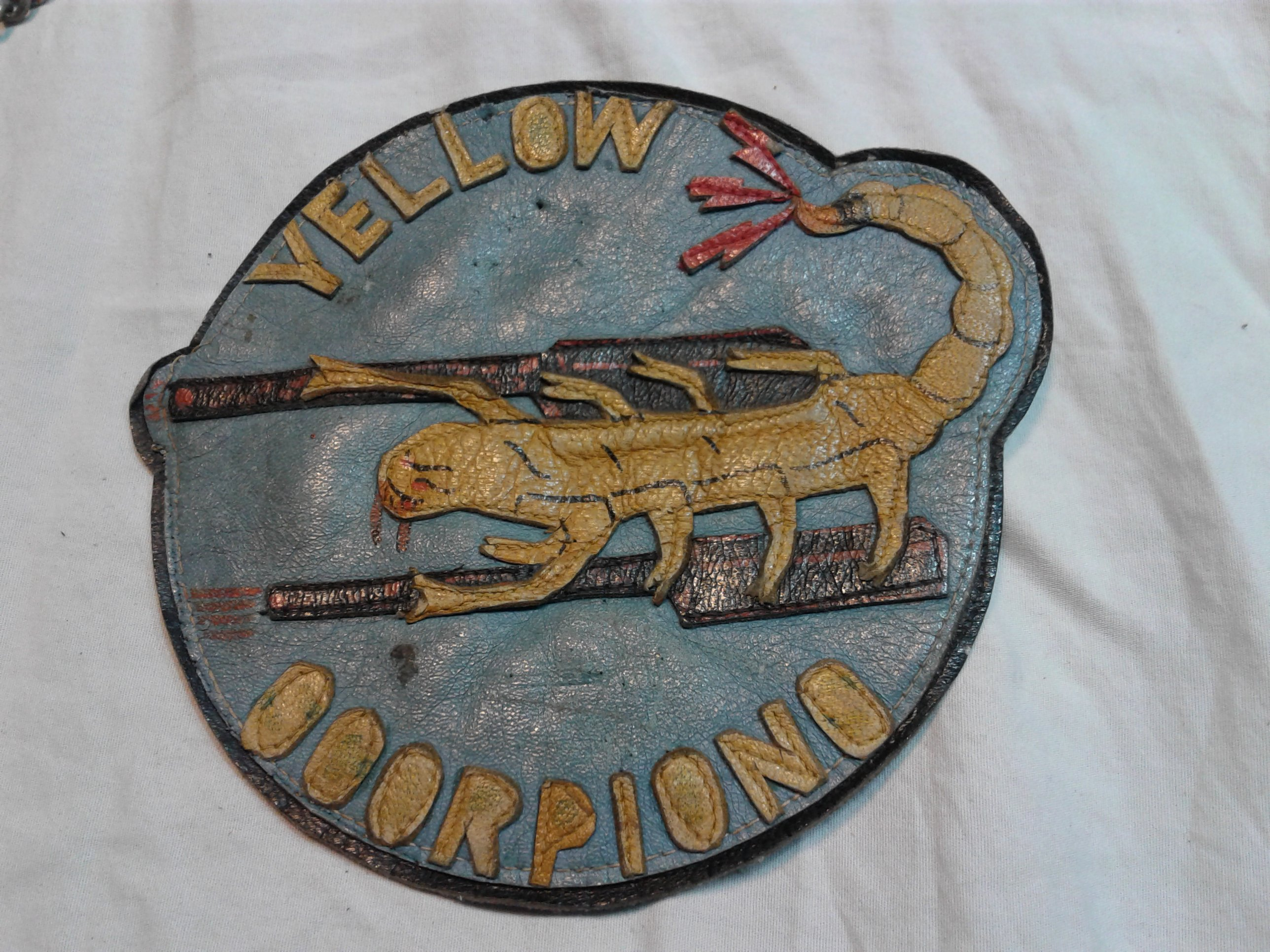 Sleeve patch for Flying Tigers, Scorpions Squadron